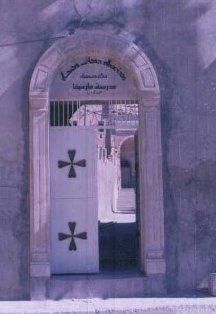 The Iraqi city of Alqosh, in Ninewa.